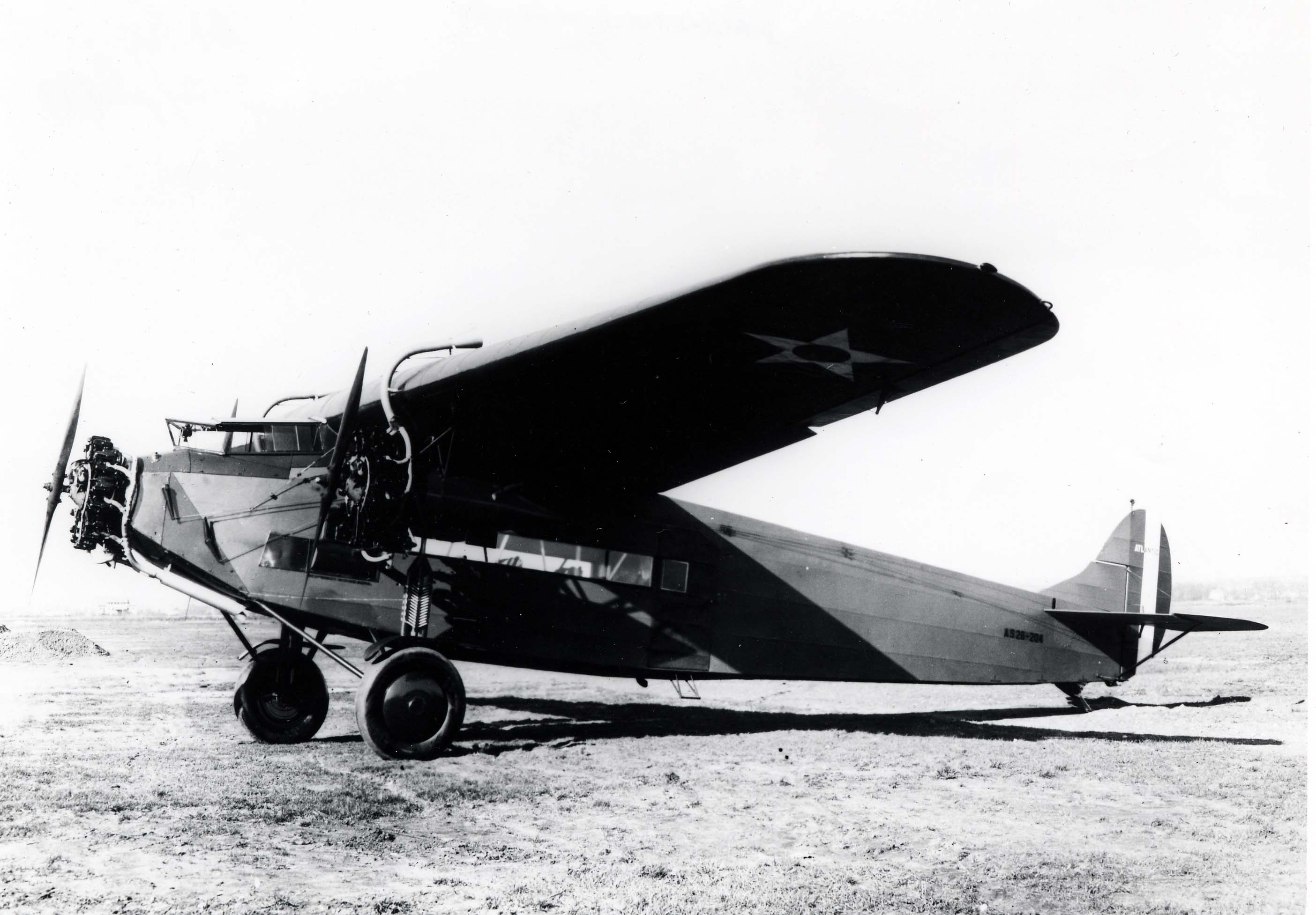 Atlantic-Fokker C-2 (S/N 26-204) at Teterboro Field, N.J. (U.S. Air Force photo)